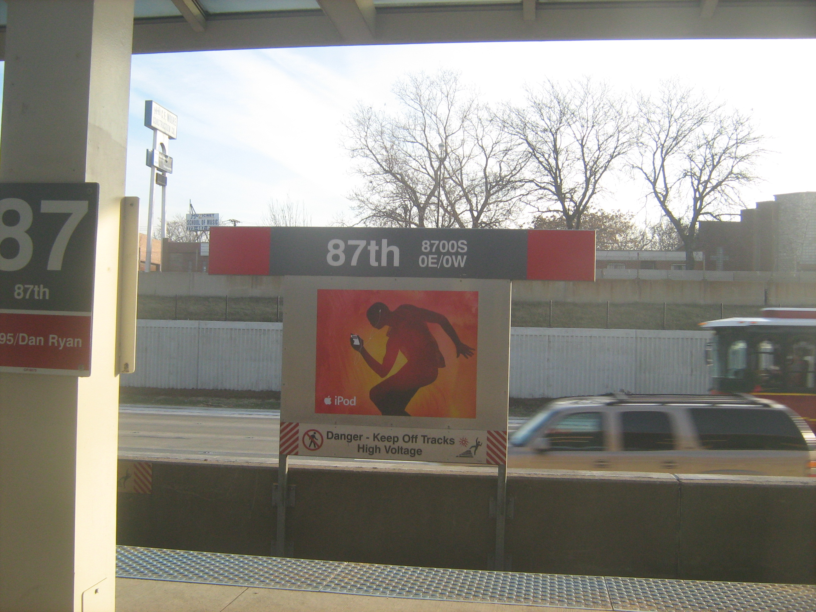 15 W. 87th St., Chicago, IL 60620